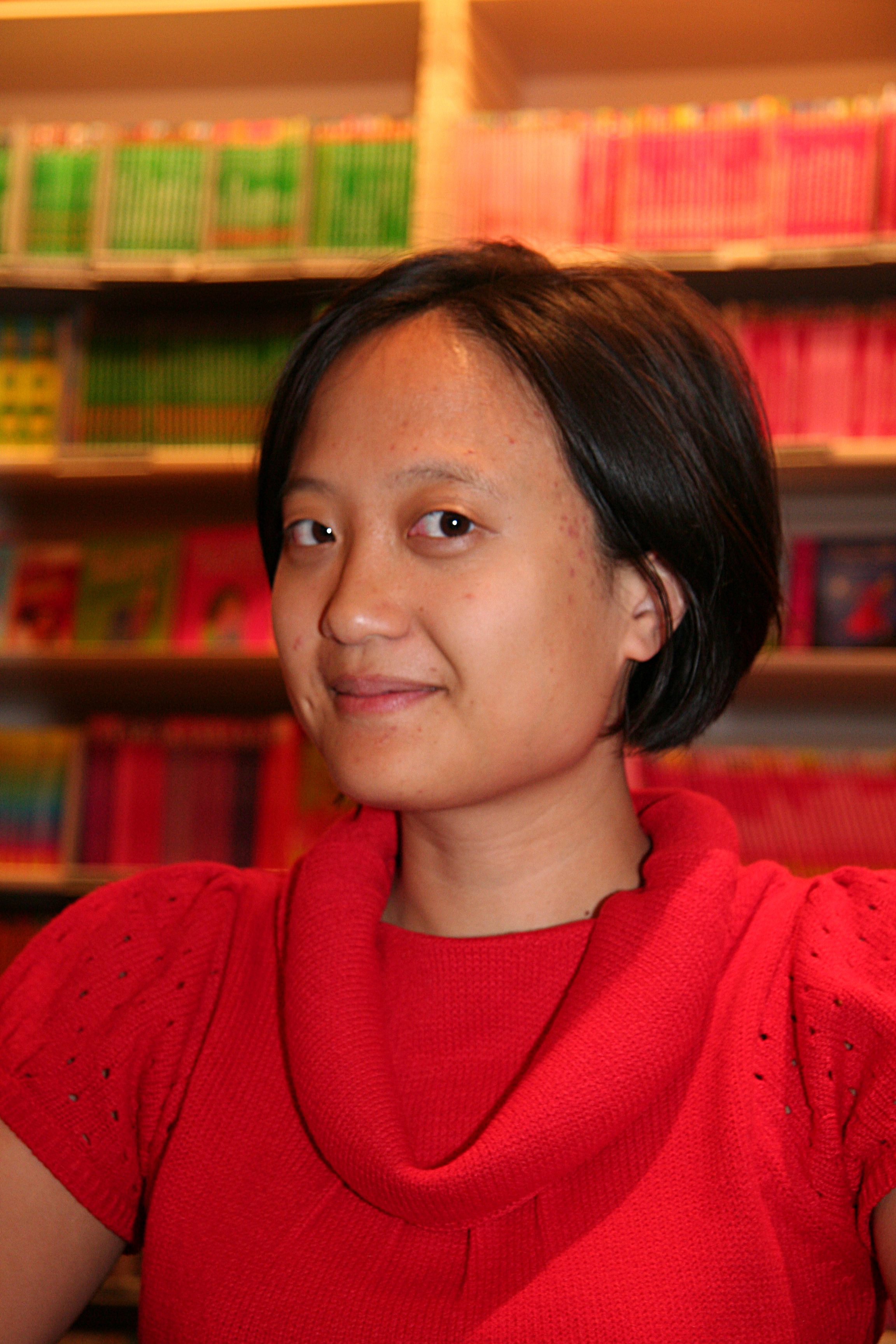 Autograph session with Aurélia Aurita at Fnac Saint-Lazare (Paris, France).